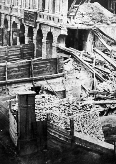 The An der Stechbahn buildings in Berlin's Cölln district, south of the Berlin City Palace.